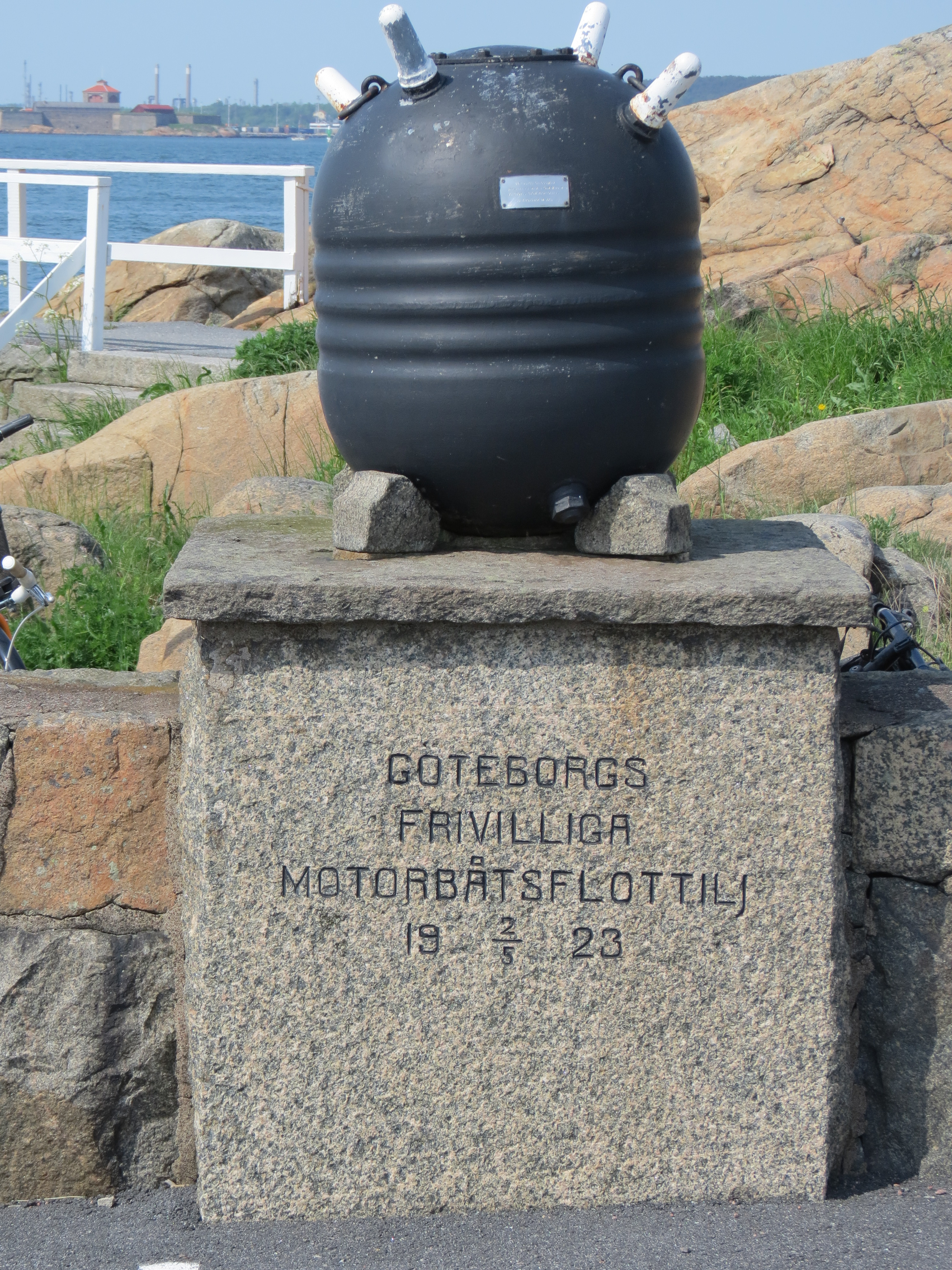 Memorial stone in Långedrag, Gothenburg. The metal plate reads: "Gothenburg naval shipyard set up a new mine in conjunction with Göteborgs Sjövärnskår 50th anniversary in 1963".